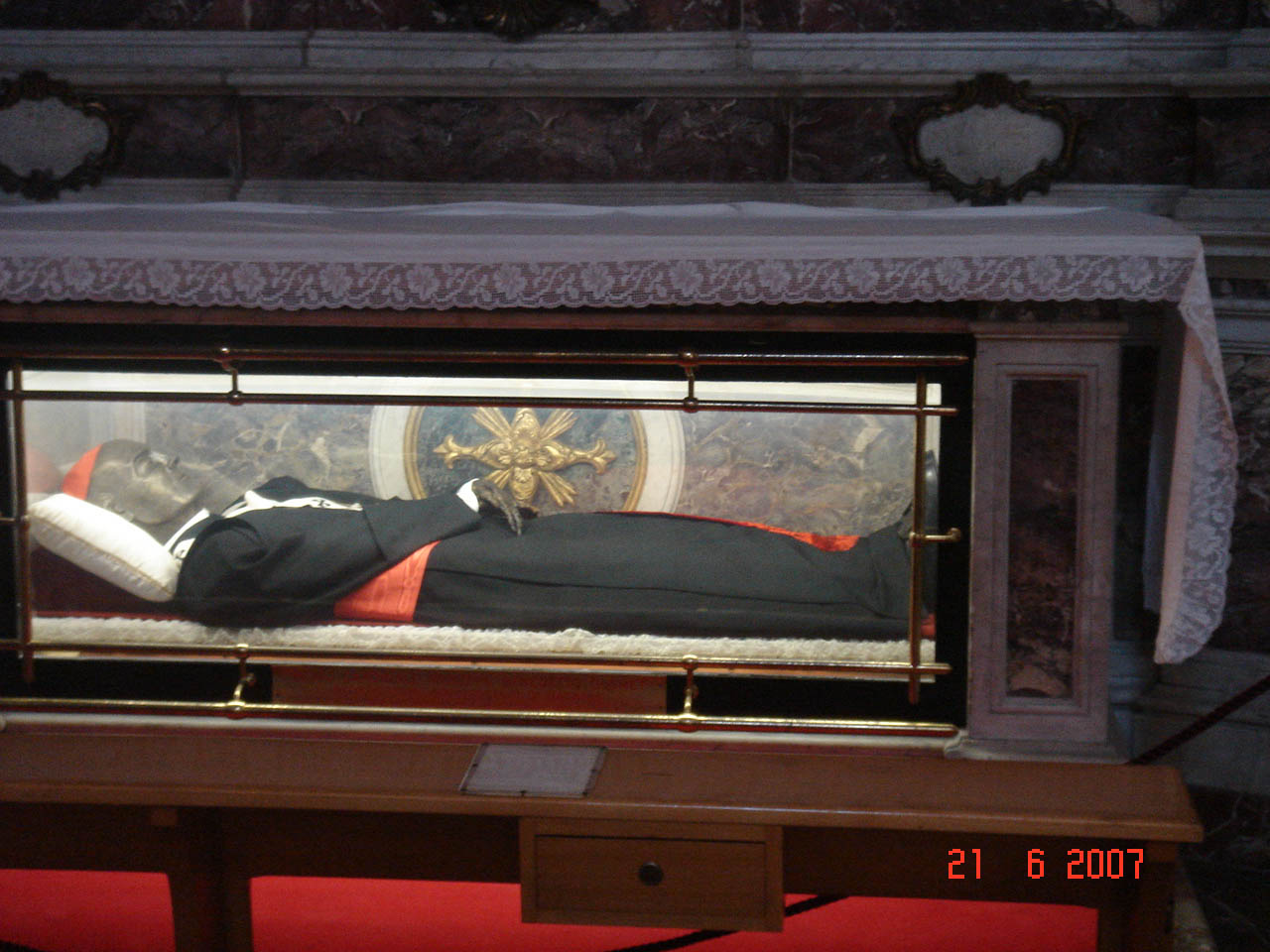 Dusmet's relics in Catania Cathedral